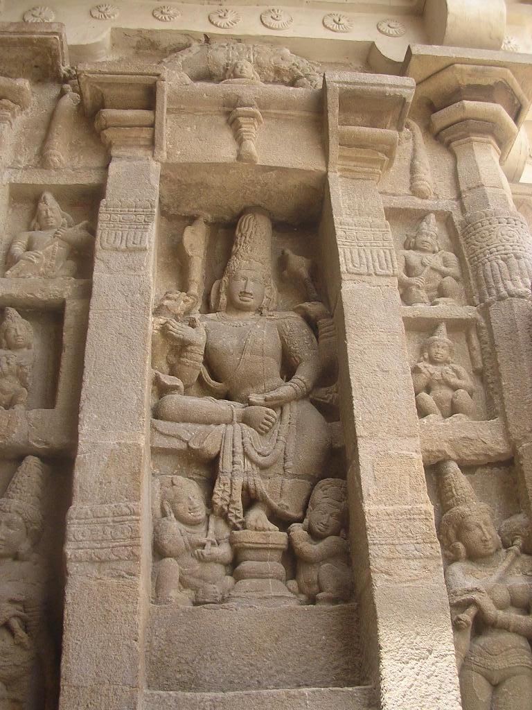 Hari+Haran - Shiva and Vishnu in a special avtaar Kailasanathar Temple in Kanceepuram/Kanchipuram. A temple that predates the ones at Mahabalipuram, this particular style has inspired the temples of Chola period - notably Big temple at Tanjavur. My blog post about the trip to Kanceepuram is in two parts - Part 1 and Part 2